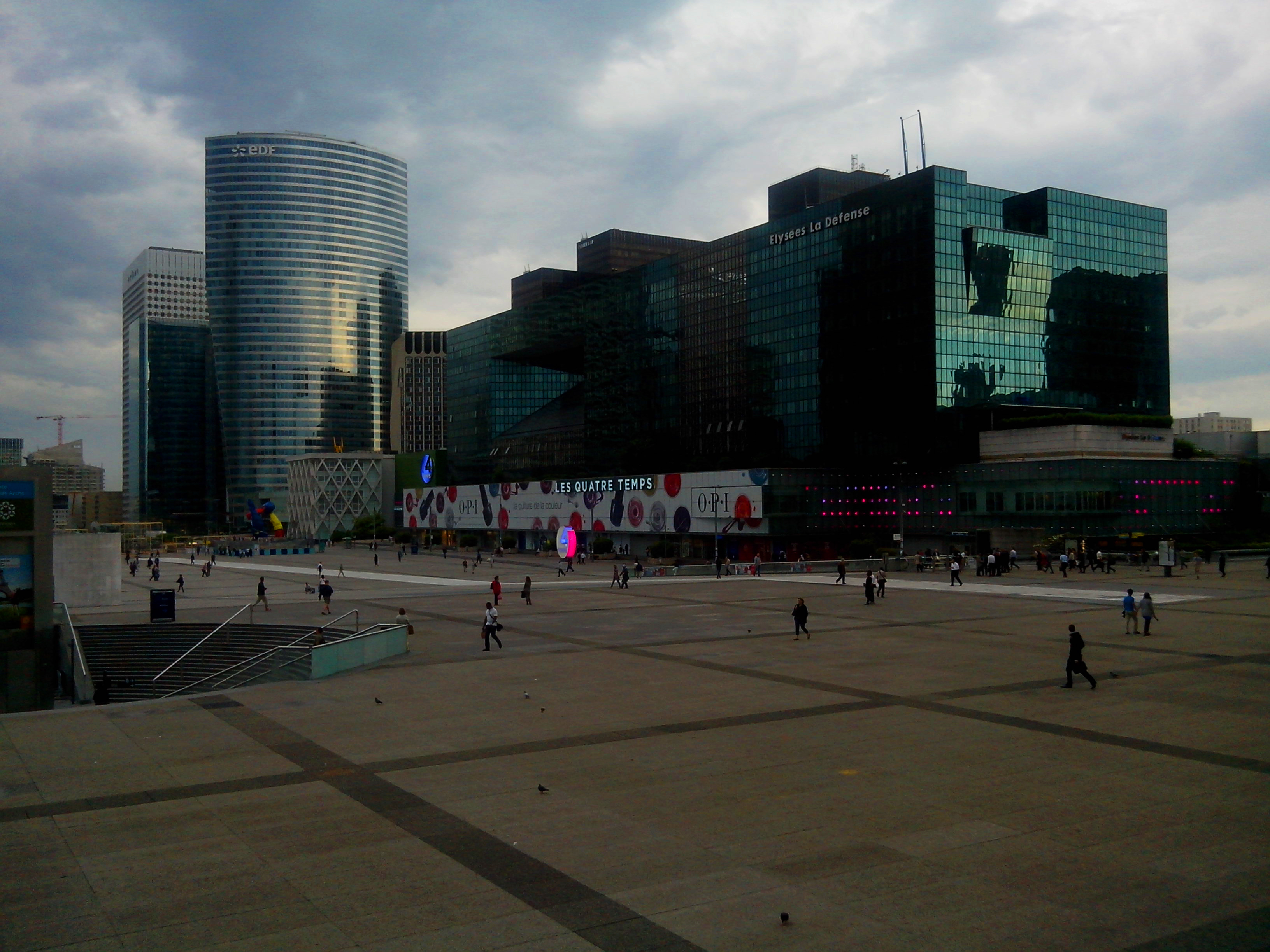 Part of the view from the steps of the Grande Arc of La Defense.